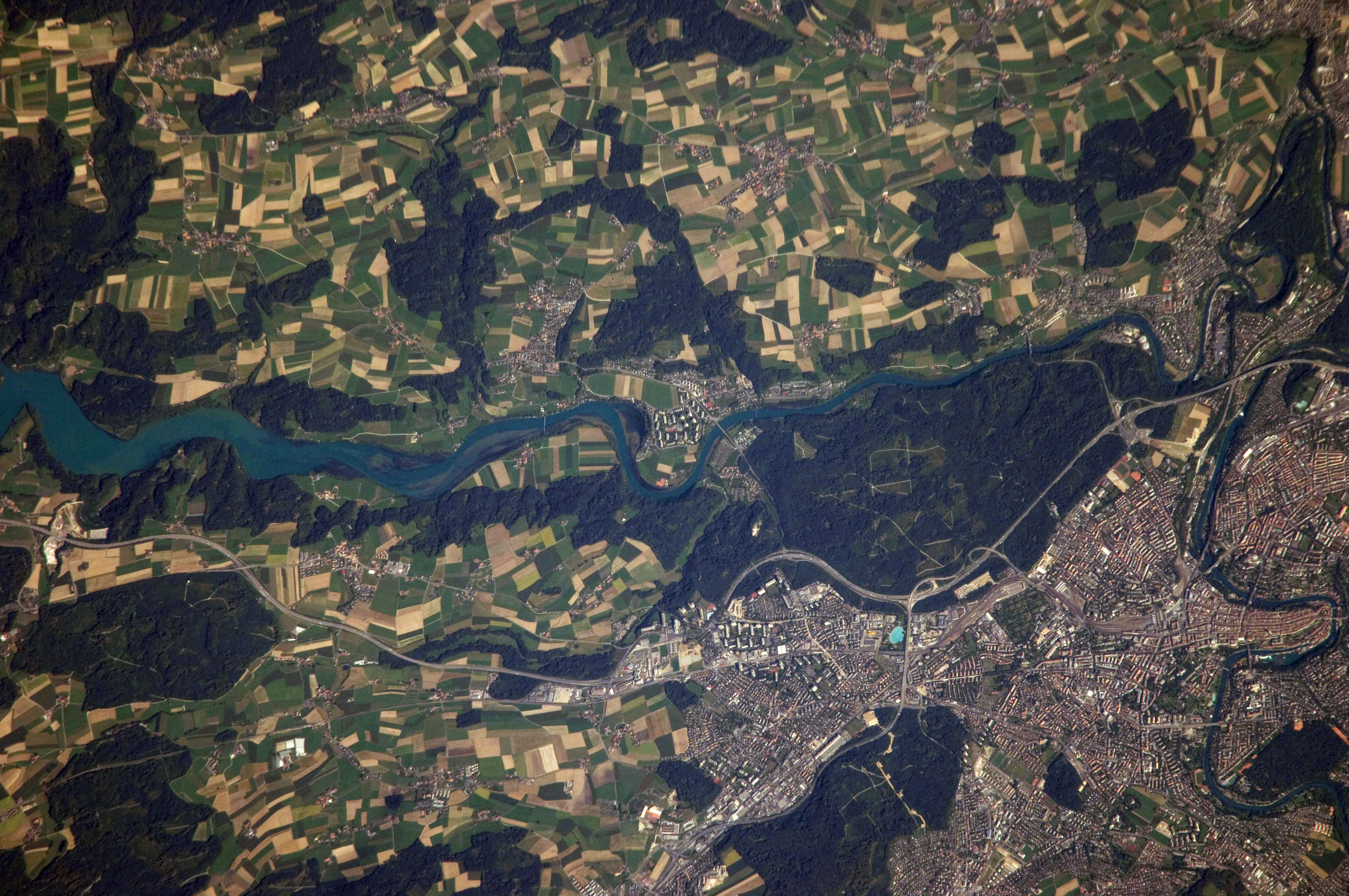 Astronaut Photo of Bern, Switzerland taken from the International Space Station (ISS) during Expedition 20 on August 19, 2009.